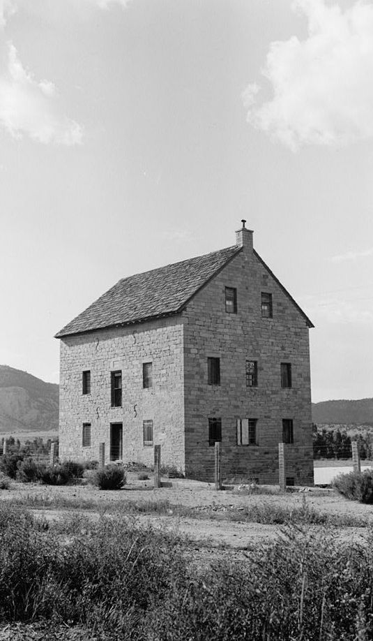 Old Aztec Mill View from Southeast — Cimarron, Colfax County, New Mexico. Image courtesy of the federal HABS—Historic American Buildings Survey of New Mexico project.